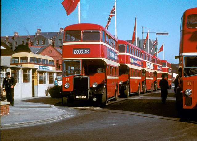 Buses in the bus station in Douglas, Isle of Man. The red vehicles belong to Isle of Man Road Services, which operated across the whole island, while the cream one is of Douglas Corporation, which operated within the town. The lead vehicle in the middle row is IoMRS bus 62 (reg. NMN 361 ), a 1951 Leyland Titan PD2/1 with Leyland highbrige bodywork (30 upstairs, 26 down). In 1968 it was renumbered 61, and by 1975 it had been converted to a tree lopping vehicle. It passed to Isle of Man Transport in 1976, before being finally withdrawn in 1981. It was then exported to West Yorkshire apparently for preservation, although by 2009 it was lying derelict in the Chepstow yard of the dealer London Bus Export Group. Since leaving the Isle of Man it has worn UK registrations 567 BVY and LSK 138. The vehicle just visible to the right is IoMRS bus 31 (reg. XMN 345), a newer 1958 Leyland Titan PD3/3 with Metro-Cammel Weymann Orion highbridge bodywork (41/32). Having been withdrawn in 1982 after various renumberings, it has possibly found a new home in Madrid since 2004, following use in England as a training and tour bus, at some point being re-registered XMC 168A.